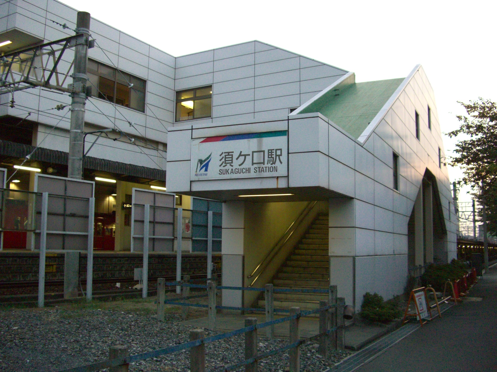 Nagoya Railroad Nagoya Main Line & Tsushima Line Sukaguchi Station Building North Gate